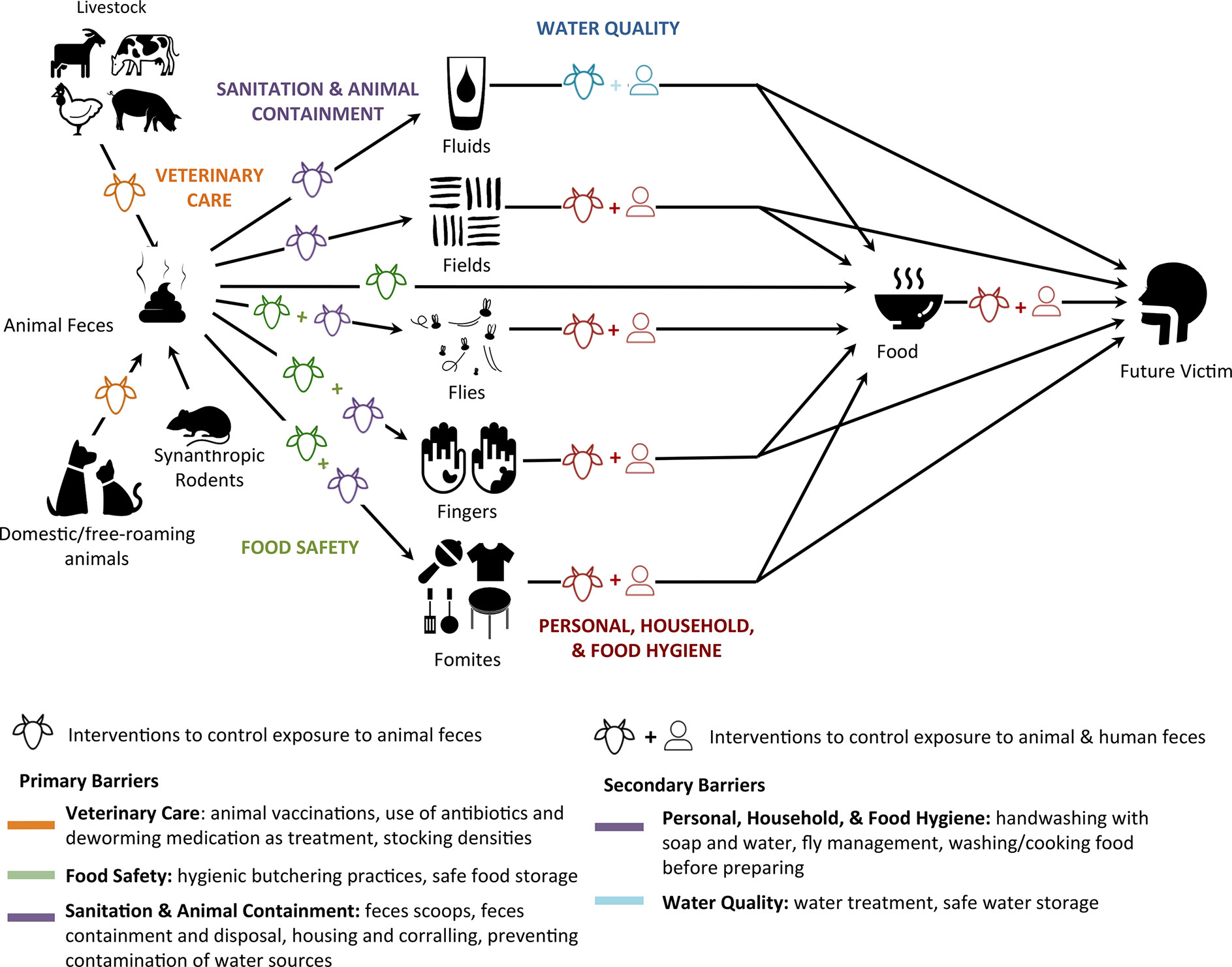 Modified F-diagram including interventions that can block human exposure to animal feces. Adapted from Wagner, E.; Lanoix, J., Excreta disposal for rural areas and small communities. Monograph Series World Health Organization. 1958, 39, 182. Copyright 1958, World Health Organization.